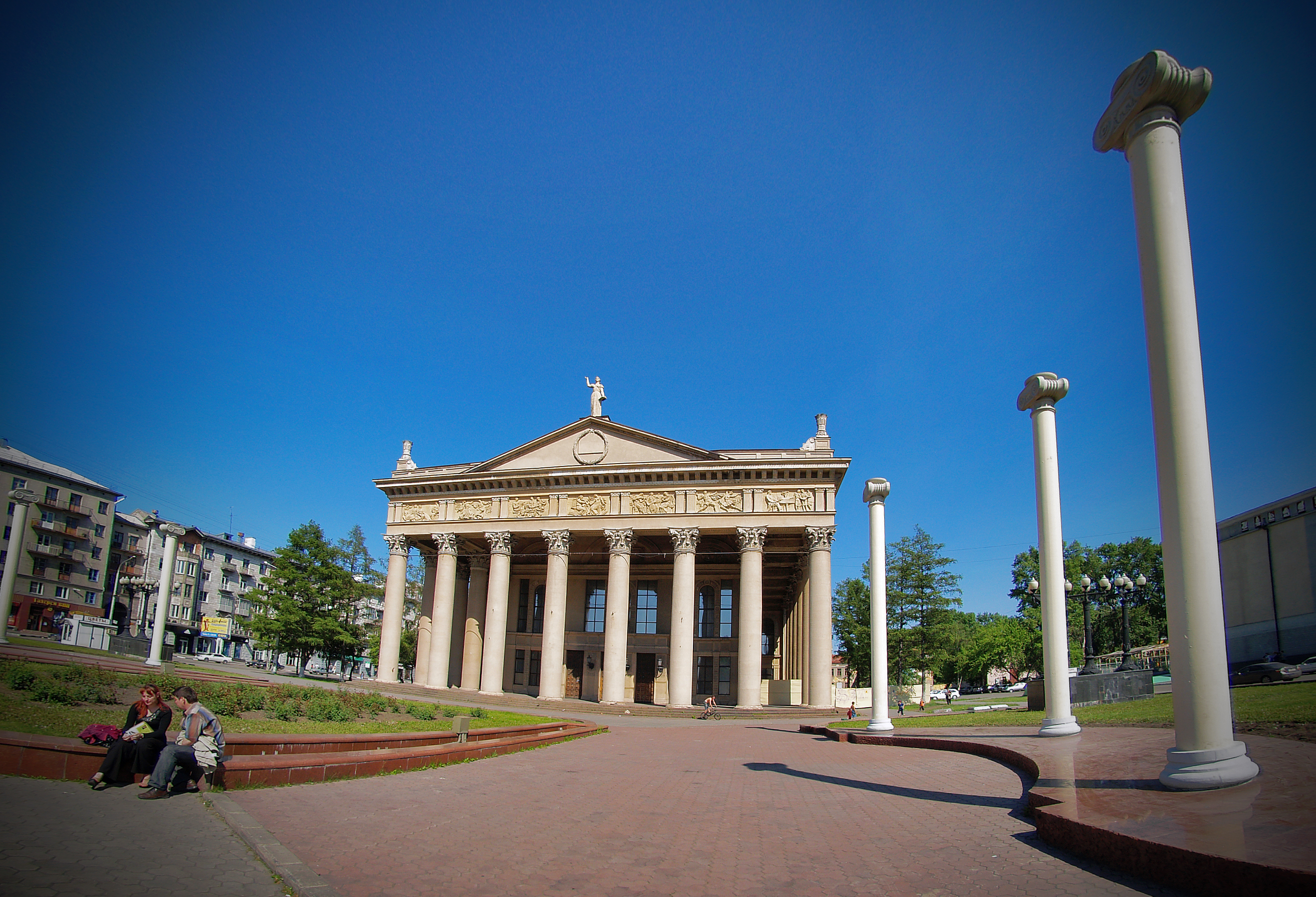 Drama Theatre of Novokuznetsk